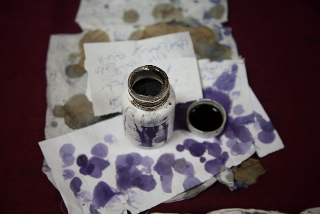 Original description: "Voters stain their fingers with ink after voting to prevent repeat voting , Cairo, Saturday, Dec. 22, 2012. (Yuli Weeks for VOA)."